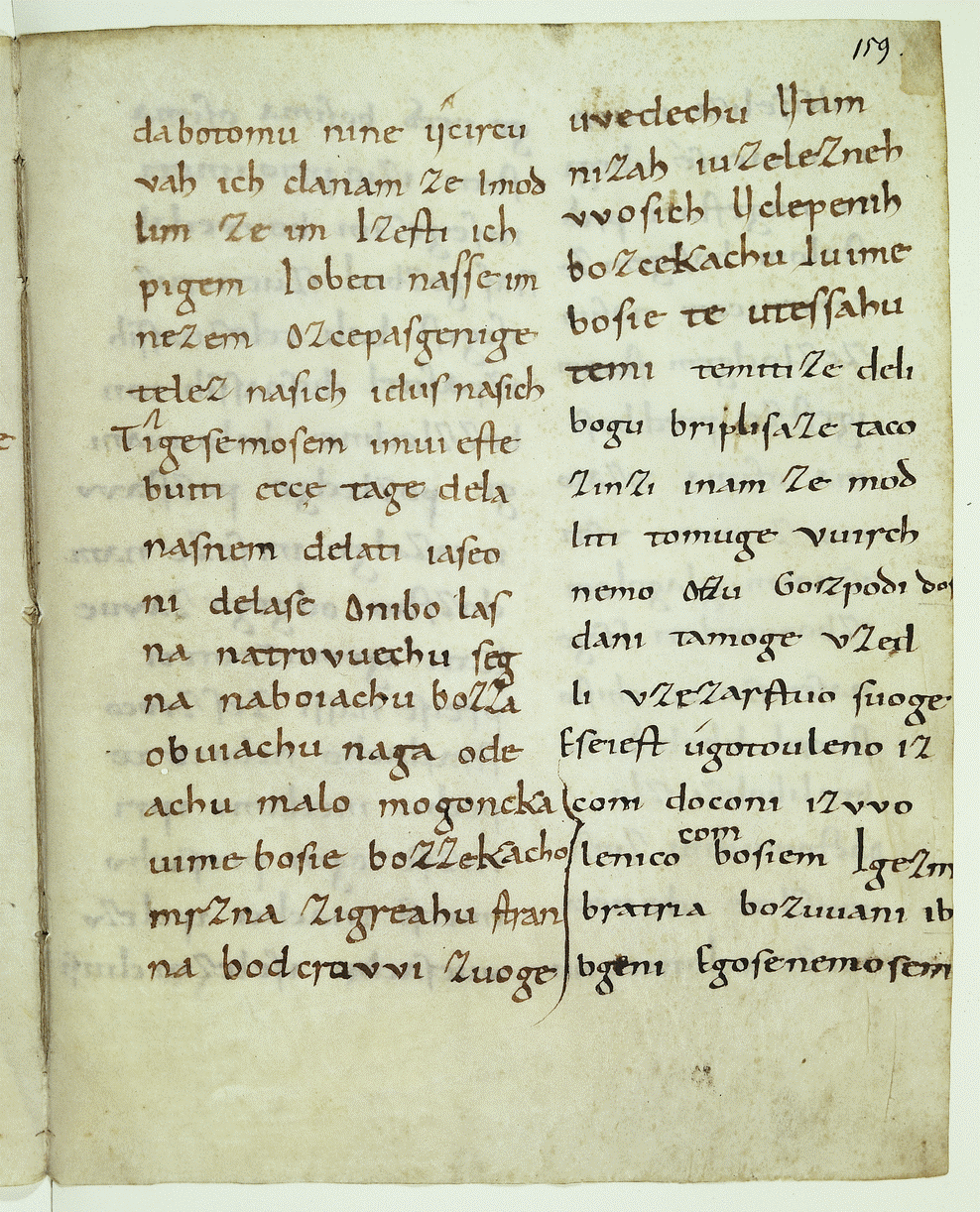 Facsimile of Freising Manuscripts, page 4.